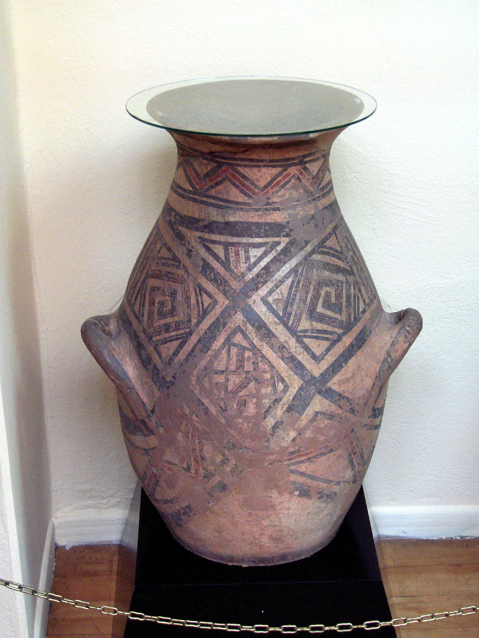 Large vase, White-glaze interior, storage-vessel size, but probably an exhibit-, or ceremonial-vase, found at Kültepe; Period of the Old Hittite Kingdom; 1660 - 1460 BC; Museum of Anatolian Civilizations, Ankara, TurkeyNote some design features: Handles-(ergonomic-style); white-glaze interior, on wide-flanged lip; geometric-sectioned design Exterior, with/ whitish-buff background with black designs; designs interlaced with internal non-intense red lines, between the black lines